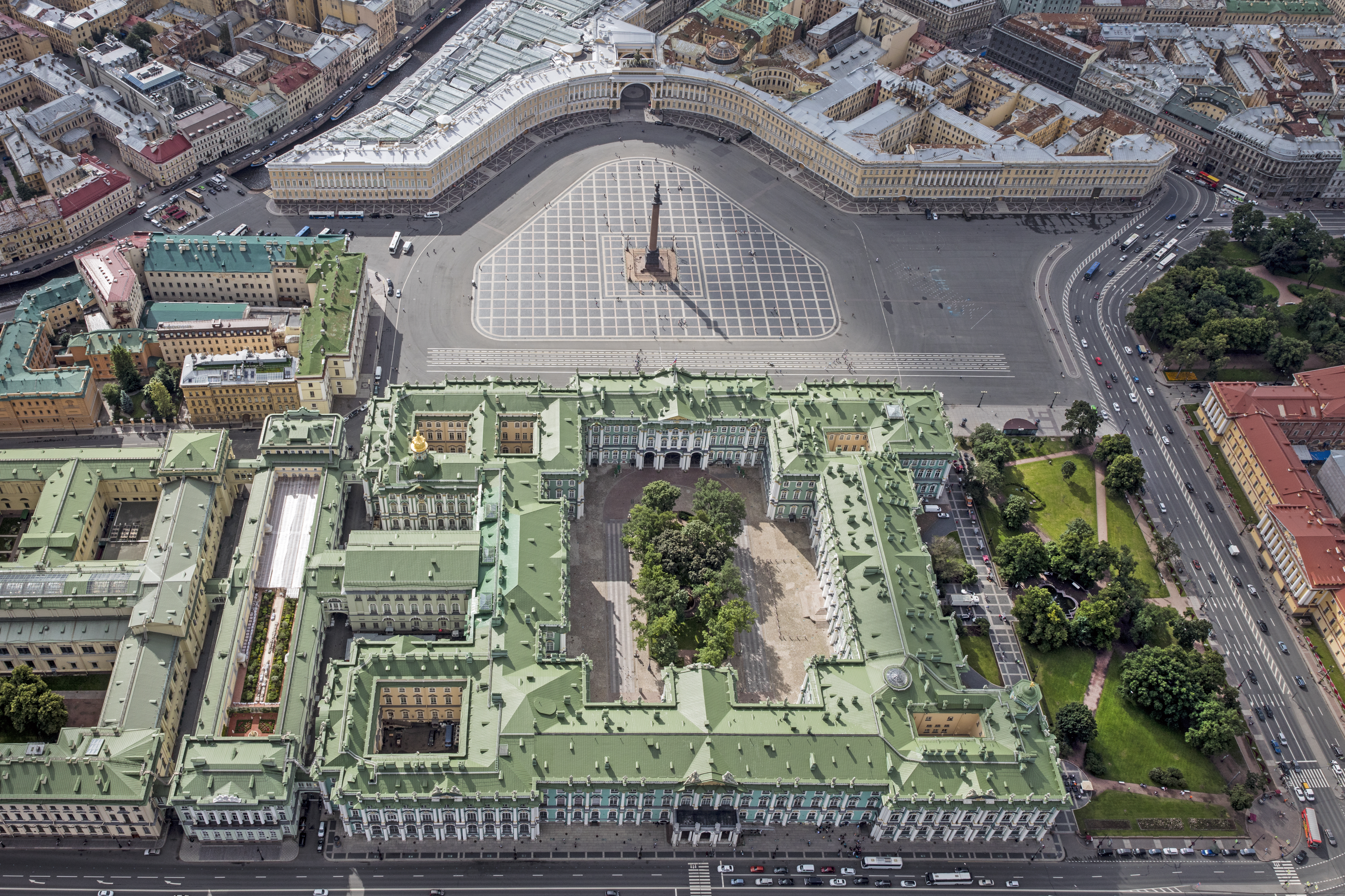 An aerial view of the Winter Palace and Palace Square, Saint Petersburg, Russia. Altitude ~1,000 - 1,200 feet.